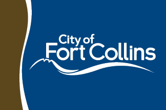 the flag of Fort Collins